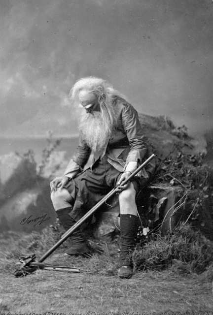 Actor Joseph Jefferson as Rip van Winkle, photographed by Napoleon Sarony in 1869.